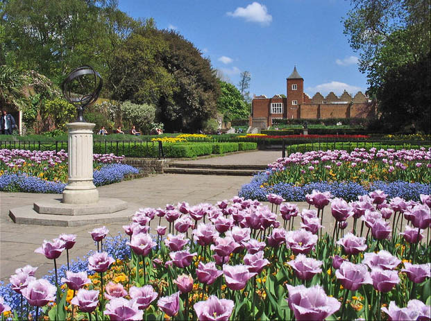 Holland Park, west side of Holland House viewed from the formal parterre gardens.